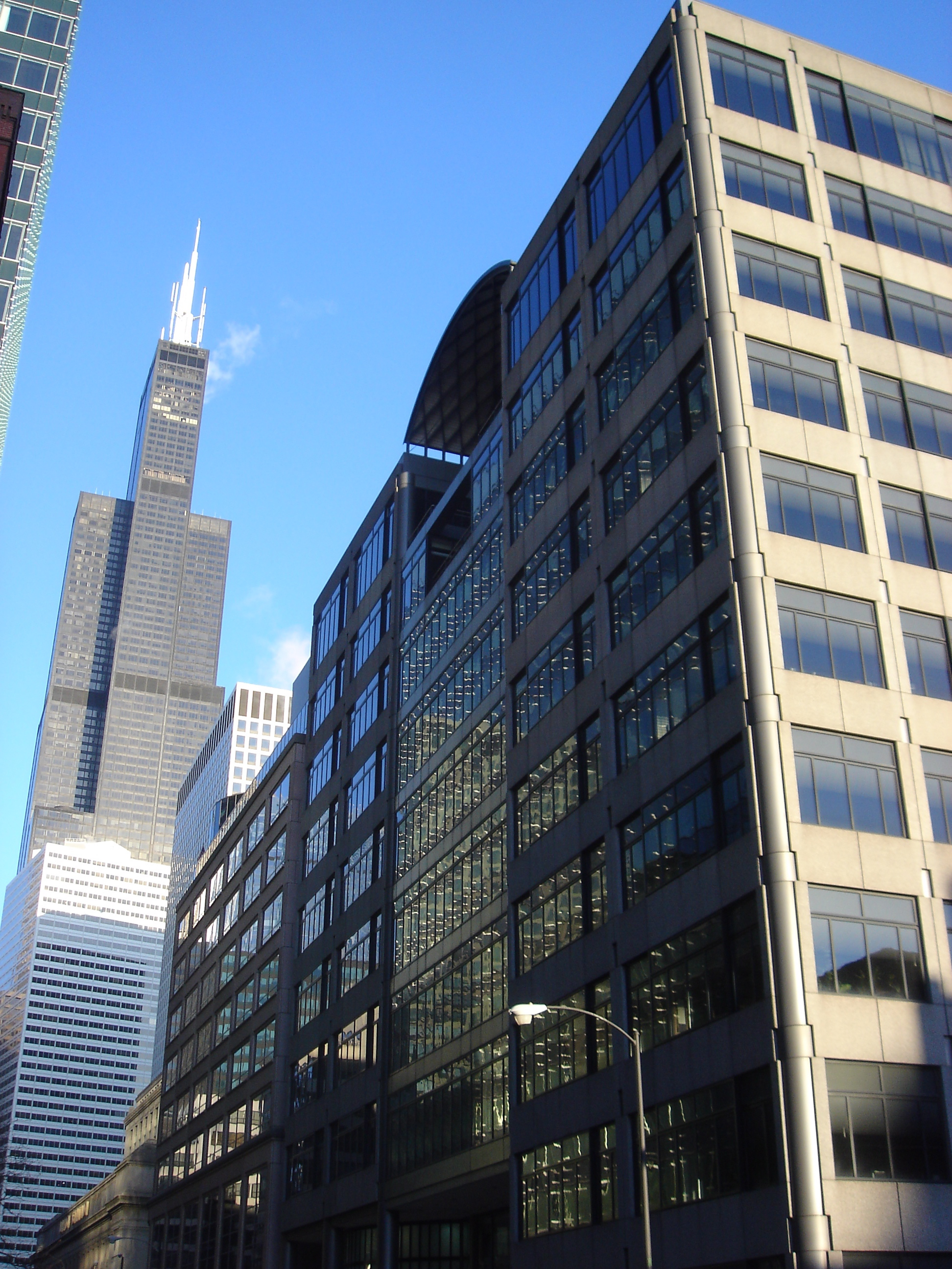 Illinois Institute of Technology's Downtown Chicago Campus (front, right), located at 565 West Adams. The Sears Tower is shown in the background. Chicago-Kent College of Law, Stuart Graduate School of Business, and the Graduate Program in Public Administration are housed in the Downtown Campus.